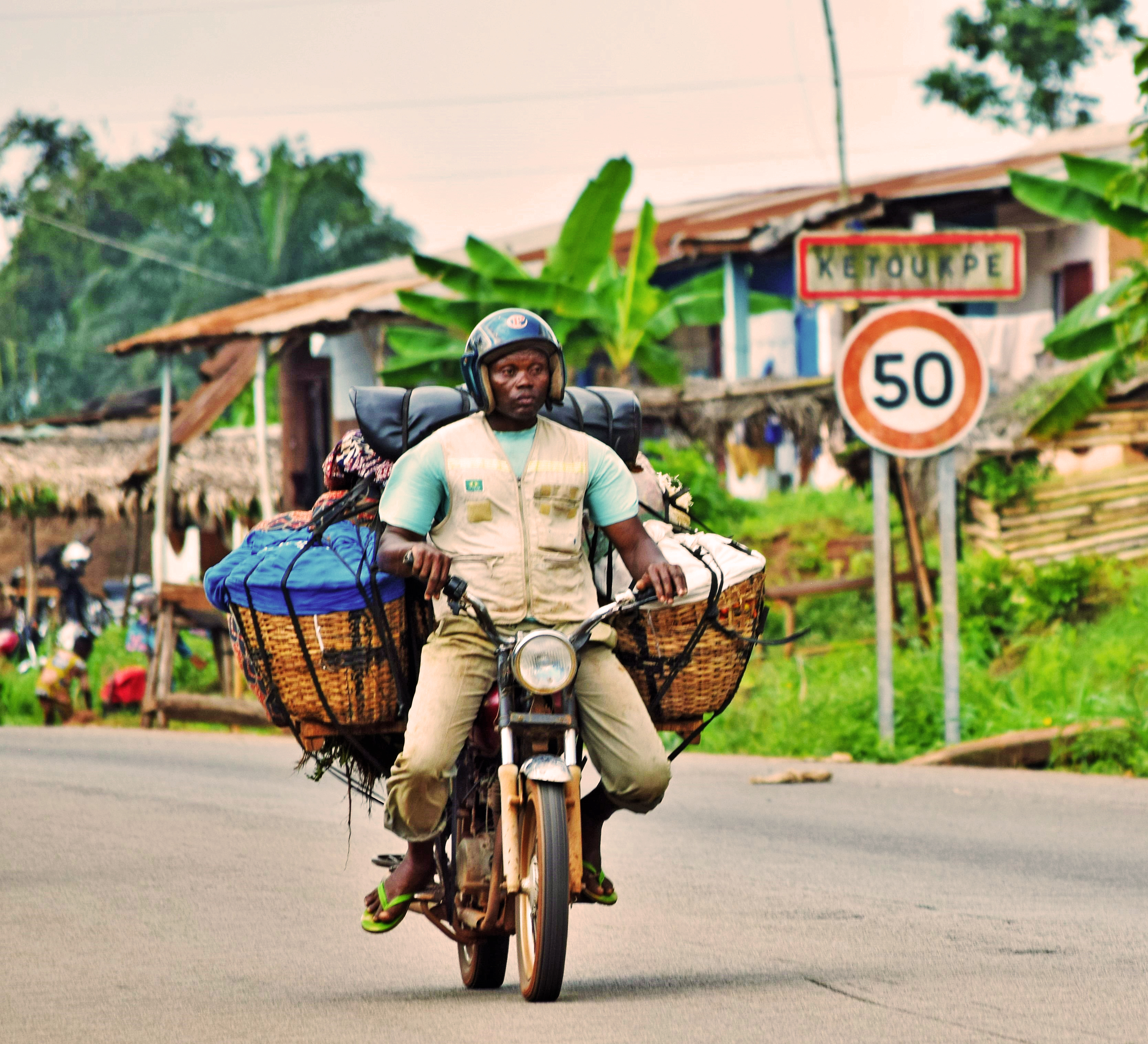 In order to be able to load a lot of products, the motorcycle's handlebars are lifted and fixed in a certain way. This is the case with this motorcycle. Photo taken in the depression between Adjohoun and Kétoukpè, in the department of Ouémé. This is an image with the theme "Africa on the Move or Transport" from: Benin